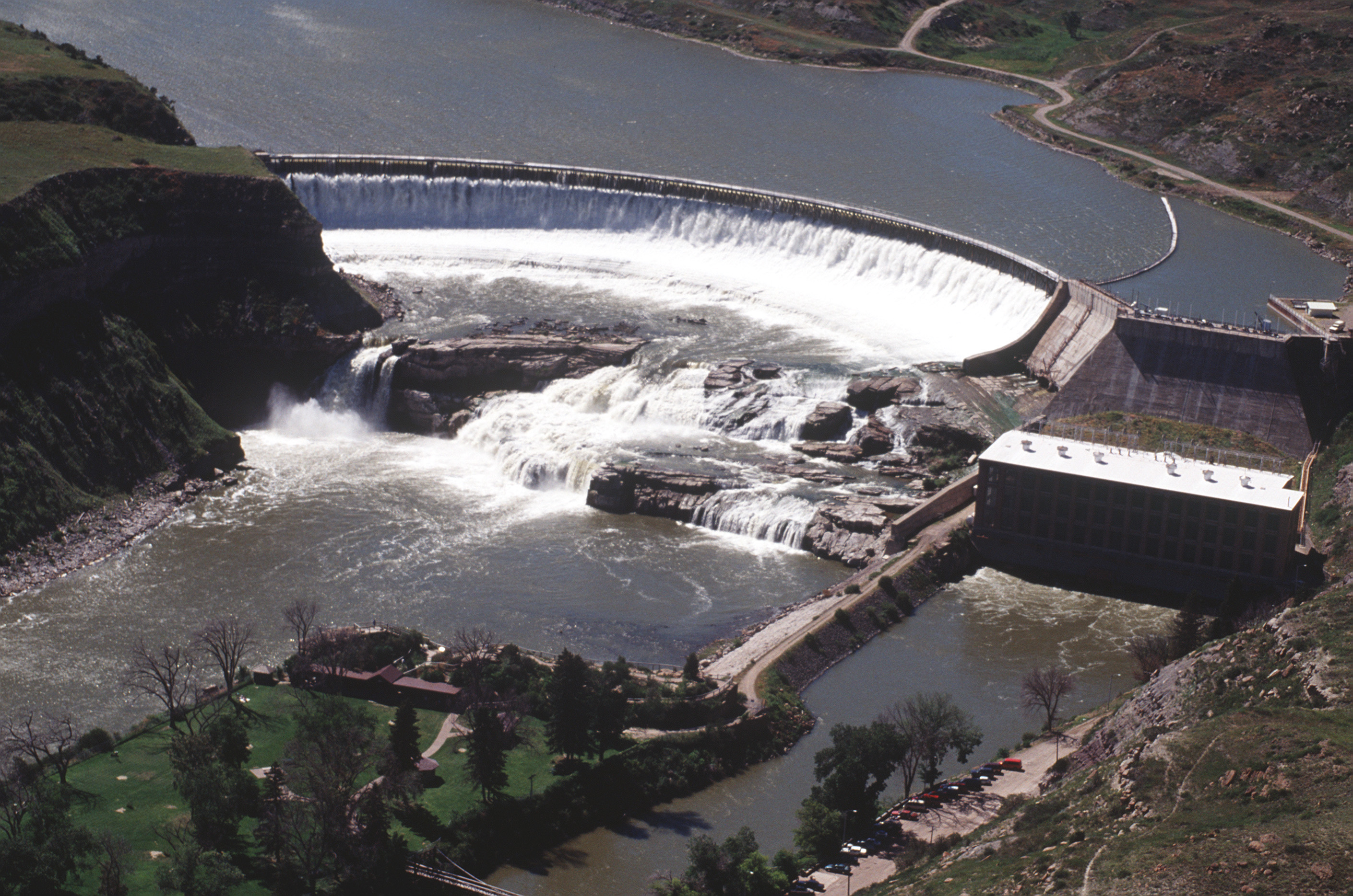 Aerial view of Ryan Dam gives a clear reason why nearby Great Falls, Montana received its name. Great Falls is the location of Malmstrom Air Force Base, one of the locations for an Operational Readiness Inspection (ORI), which tests a unit's ability to operate in a simulated wartime environment and Air Force members will practice their jobs under wartime scenarios and conditions.Location: MALMSTROM AIR FORCE BASE, MONTANA (MT) UNITED STATES OF AMERICA (USA)